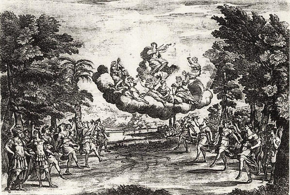 Act 3, Scene 10 of Erminia sul Giordano, an opera composed by Michelangelo Rossi to a libretto by Giulio Rospigliosi (Pope Clemens IX), first performed at the Palazzo Barberini, Rome, 1633. The singers were Angelo Ferrotti (Erminia), Marc'Antonio Pasqualini (Laurinda), Girolamo Zampetti (Lidia), Francesco Bianchi (Tancredi) , Odoardo Ceccarelli (Fileno), Bartolomeo Nicolini (Montano), and Michelangelo Rossi (Apollo), (Selvaggio), (Corebo), (Ergasto), (Eurillo), (Armindo), This is one of 5 illustrations of the opera published in the 1637 edition of the libretto